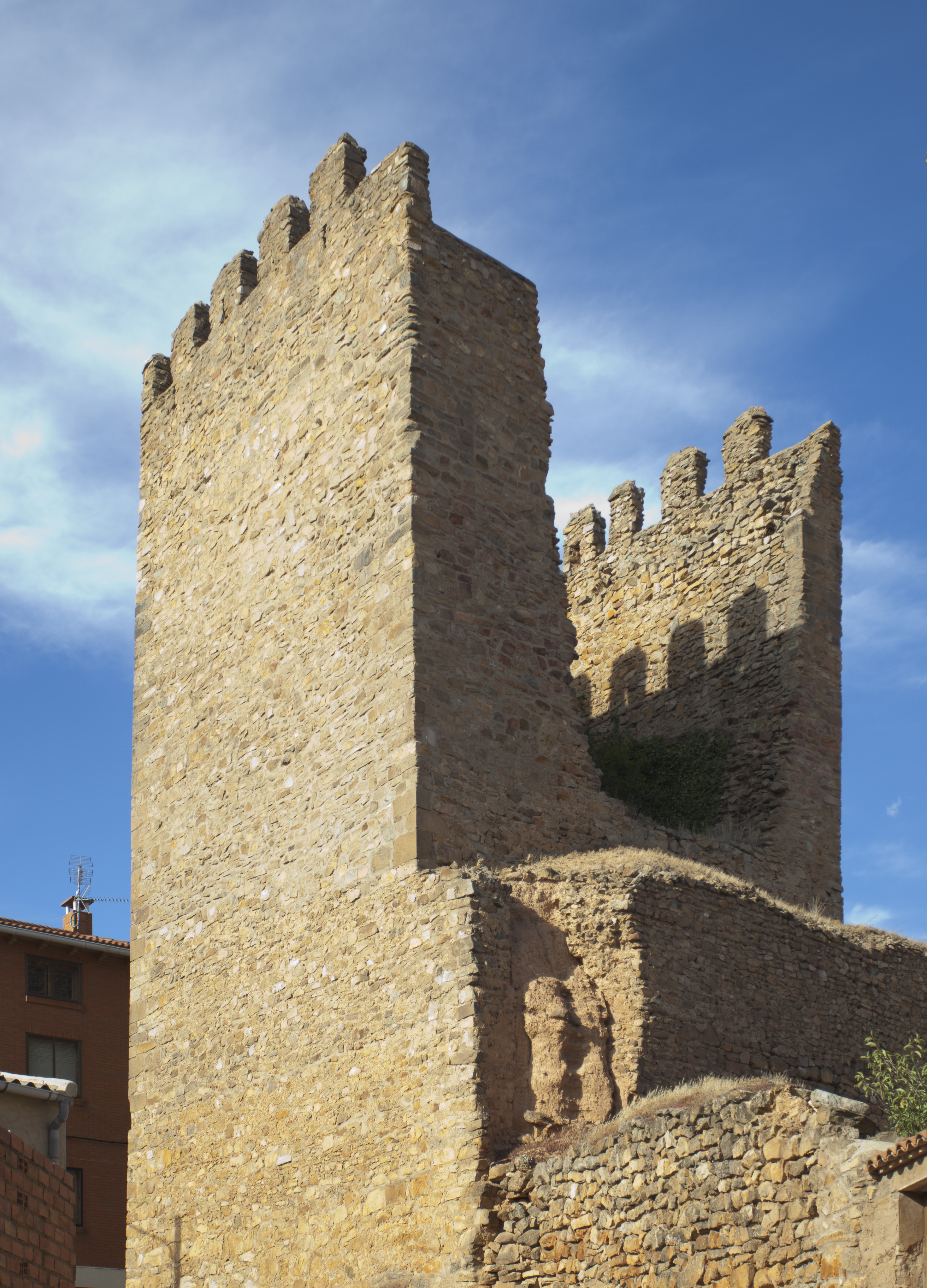 Rollo Tower, Ágreda, Spain